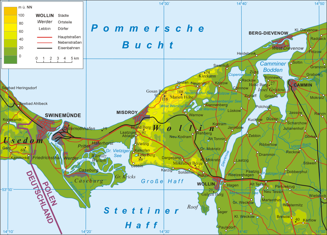 Map of Wolin - german description